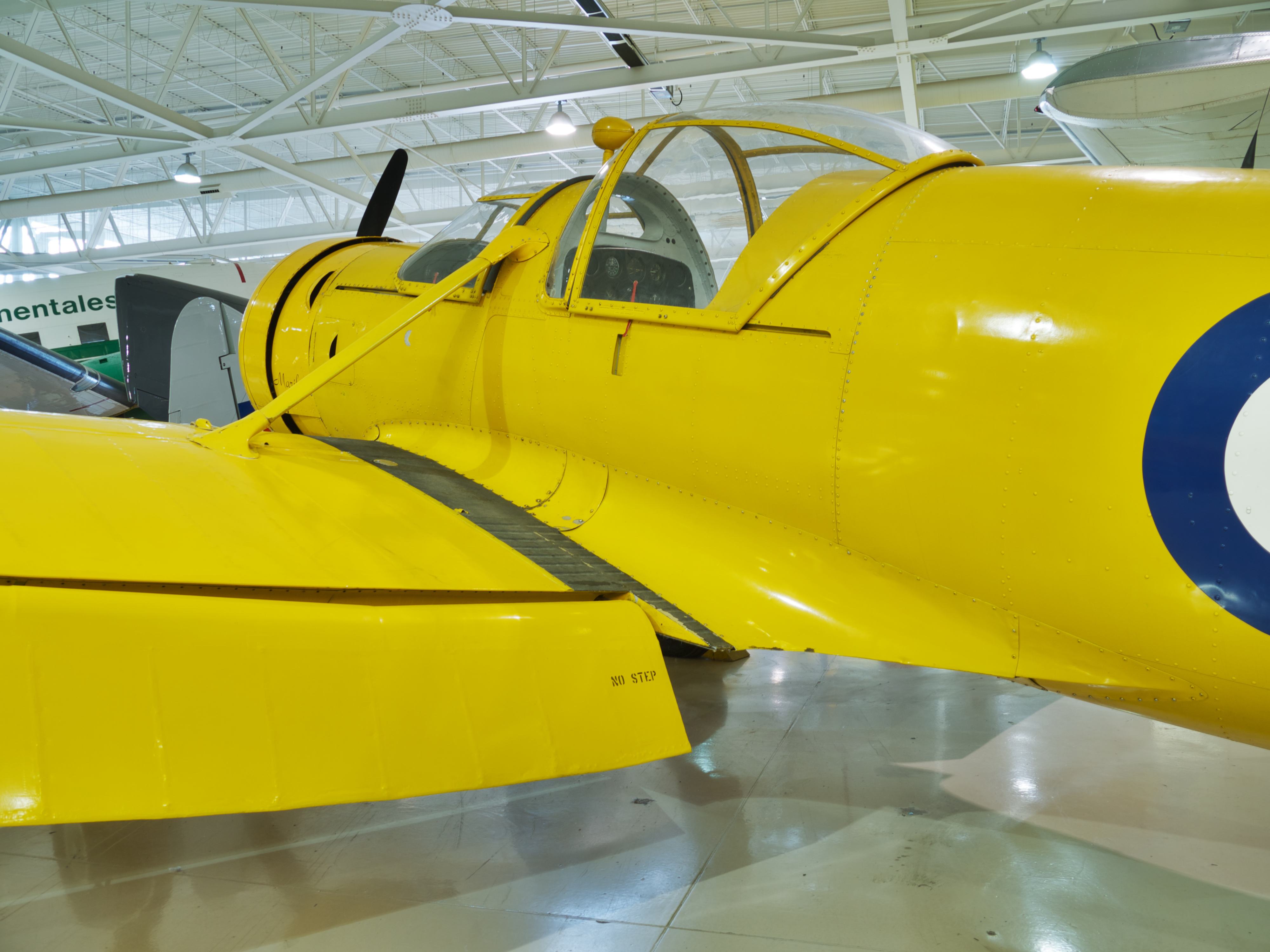 Fleet Fort trainer (RCAF 3540) at Canadian Warplane Heritage Museum in Hamilton, Ontario.